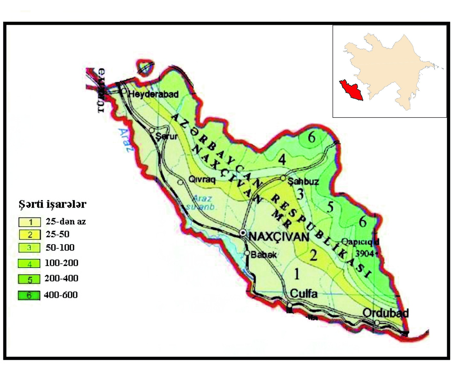 Orta Araz təbii vilayətində çayların orta illik axımı, (mm)